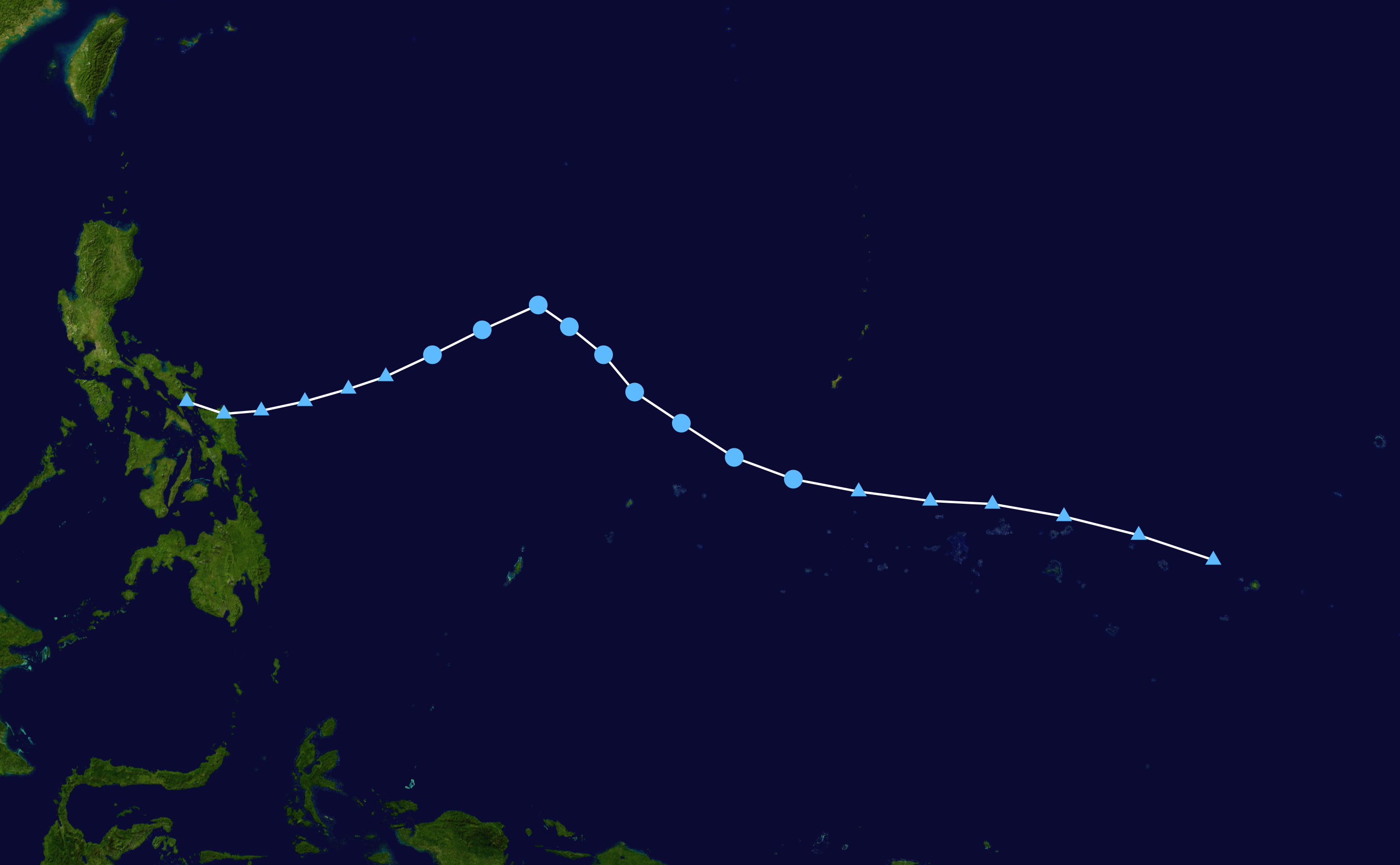 Tropical Storm Trami (2006) track. Uses the color scheme from the Saffir-Simpson Hurricane Scale.